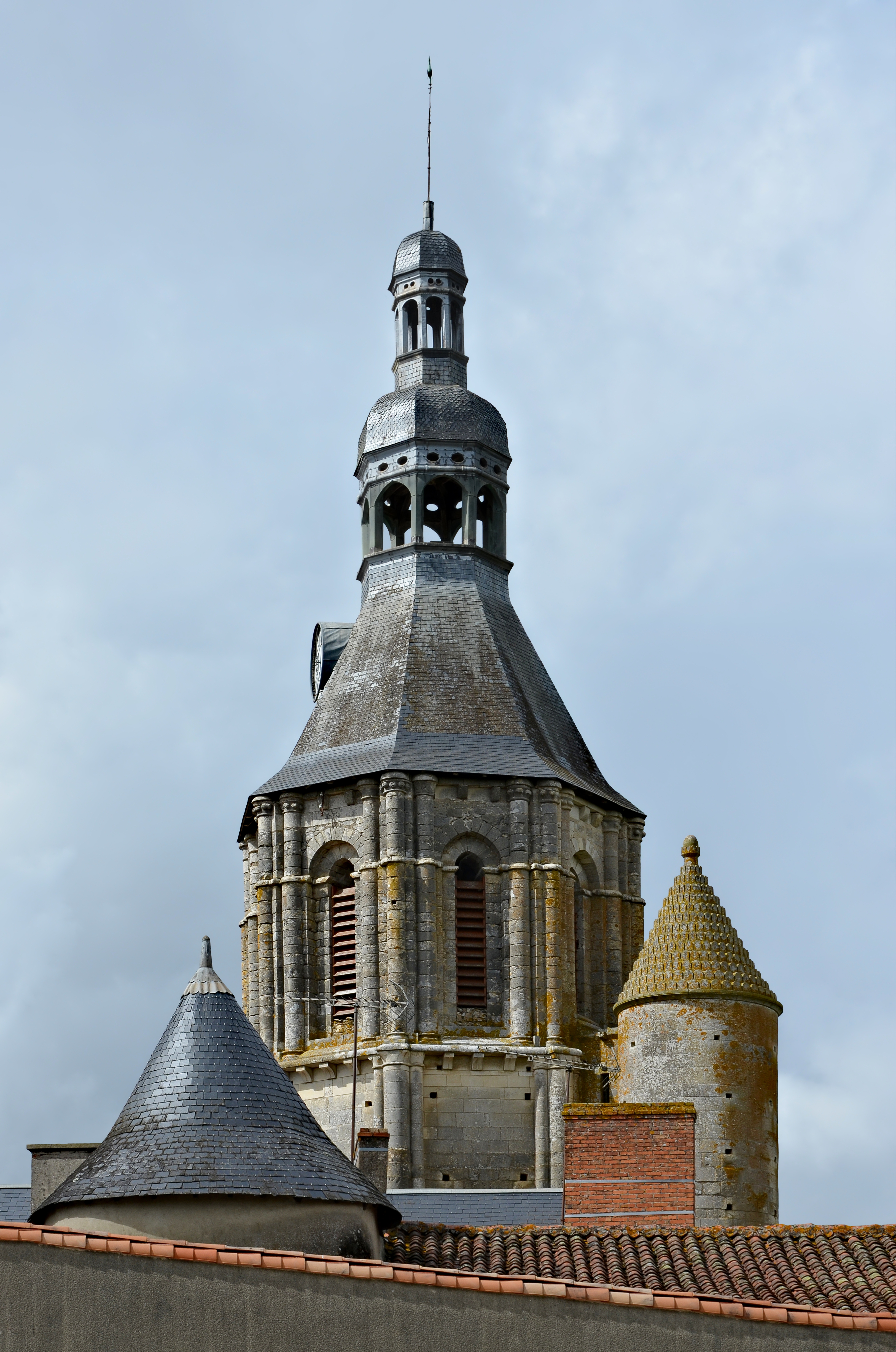 Bell tower of the church and neighbouring turrets, Civray, Vienne, France.